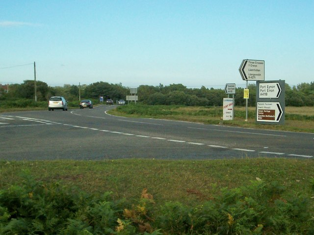 Road Junction whereB4271 meets A4118.